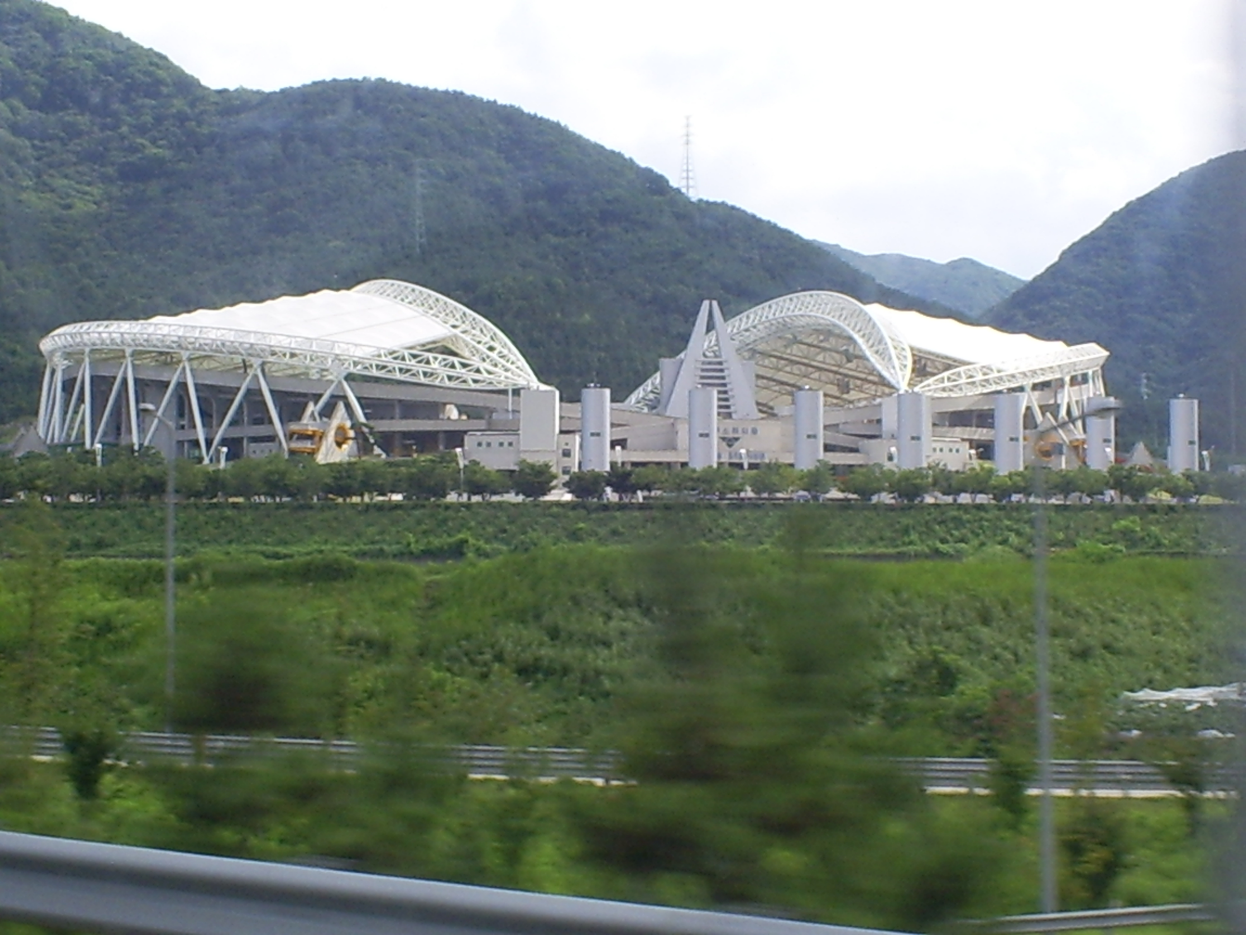 Daegu Stadium